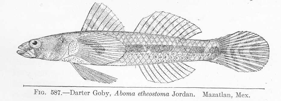 Darter Goby, Aboma etheostoma Jordan. Mazatlan, Mex. Subject: Gobiidae Tag: Fish